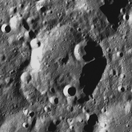 Perkin lunar crater - LROC image